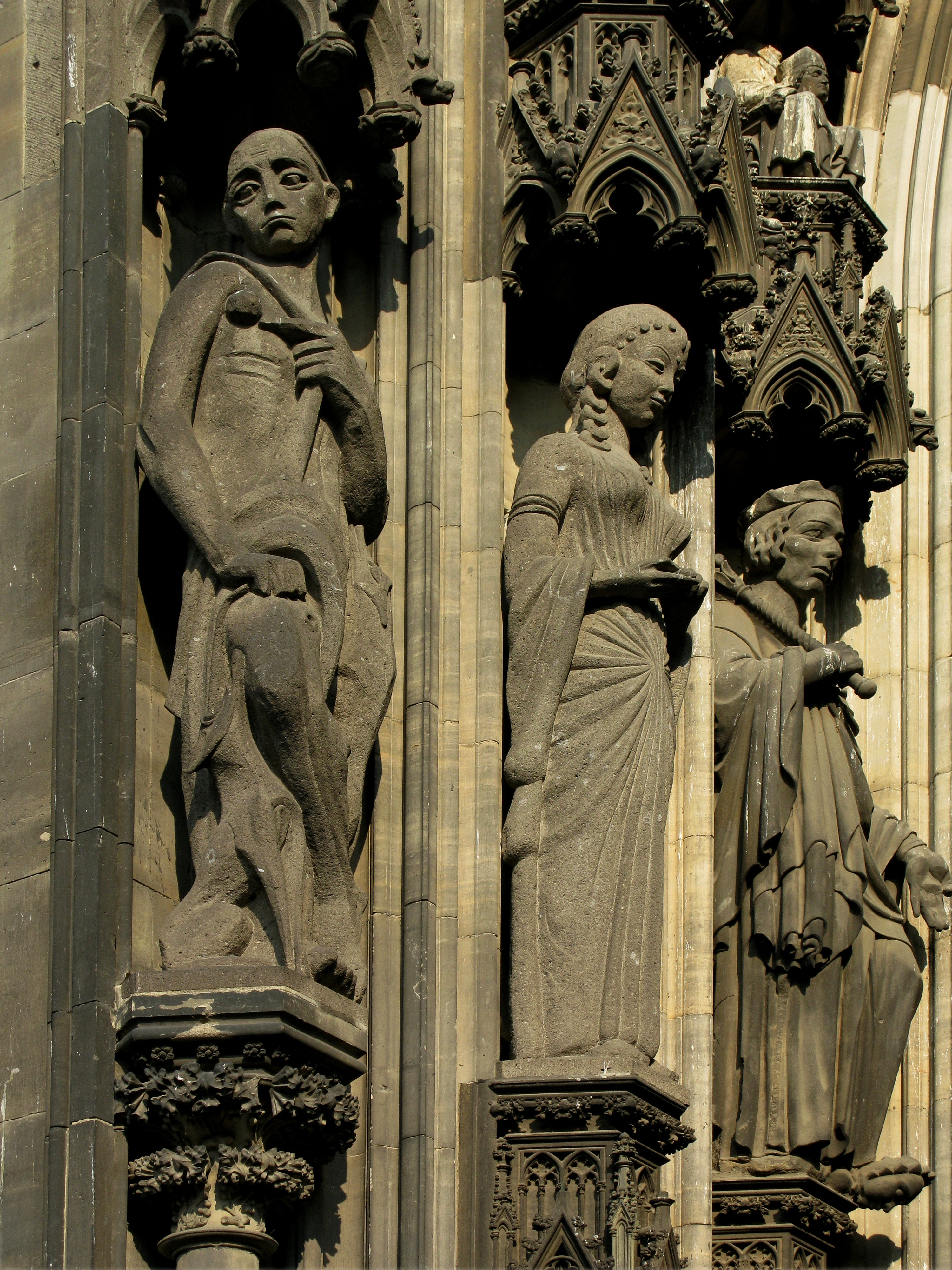 This is a photograph of an architectural monument.